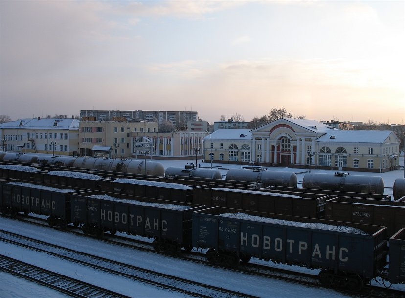 Railway station of Polotsk town of the Vitebsk (v)oblast, located in the northern Belarus. Note that the actual railway station is nowadays the yellow "box type" building, not the older more classical looking building (with station restaurant etc).